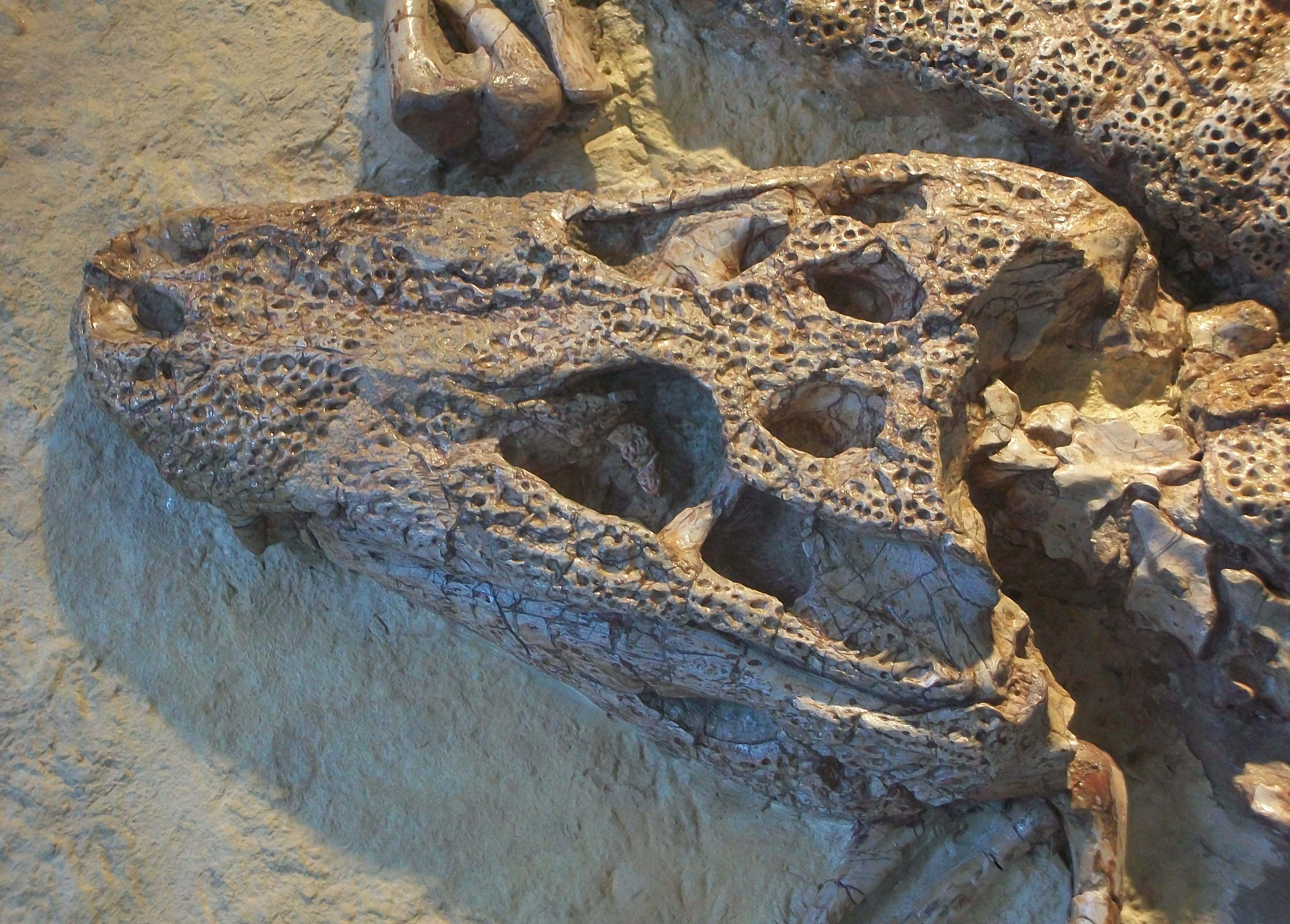 Skull of Alligator prenasalis (AMNH 4994) in the American Museum of Natural History.